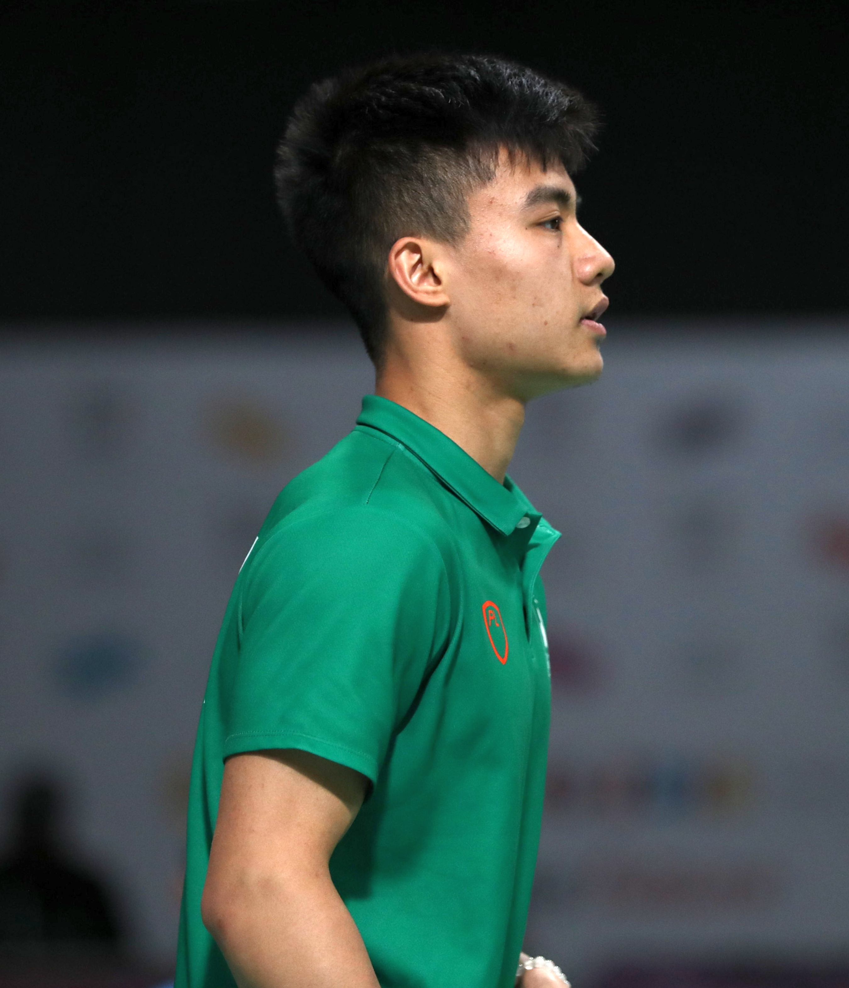 Bronze medal match at the Badminton Mixed International Team competition